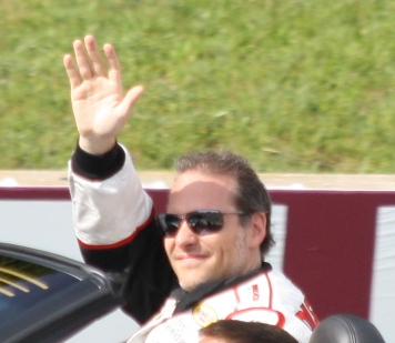 NASCAR driver Jacques Villeneuve the 2011 Bucyros 200 Nationwide race at Road America.